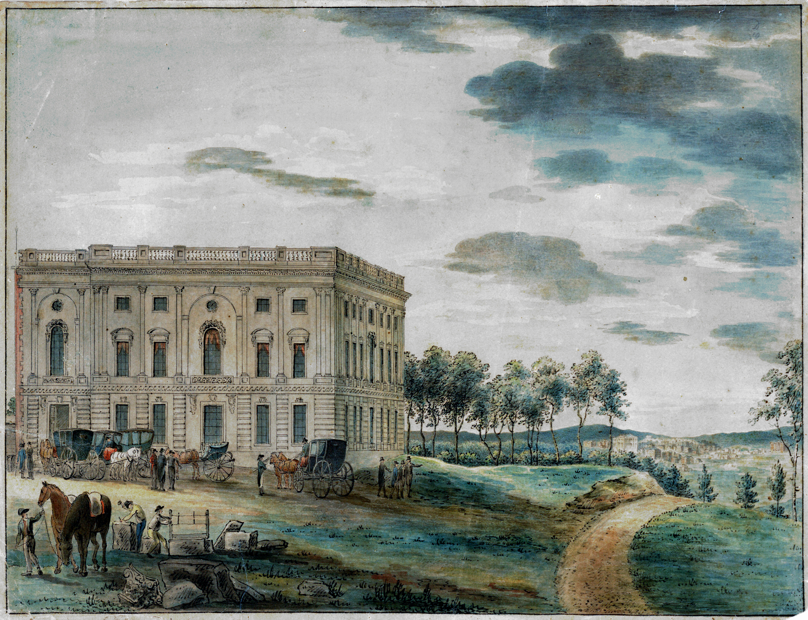 A view of the Capitol of Washington before it was burnt down by the British